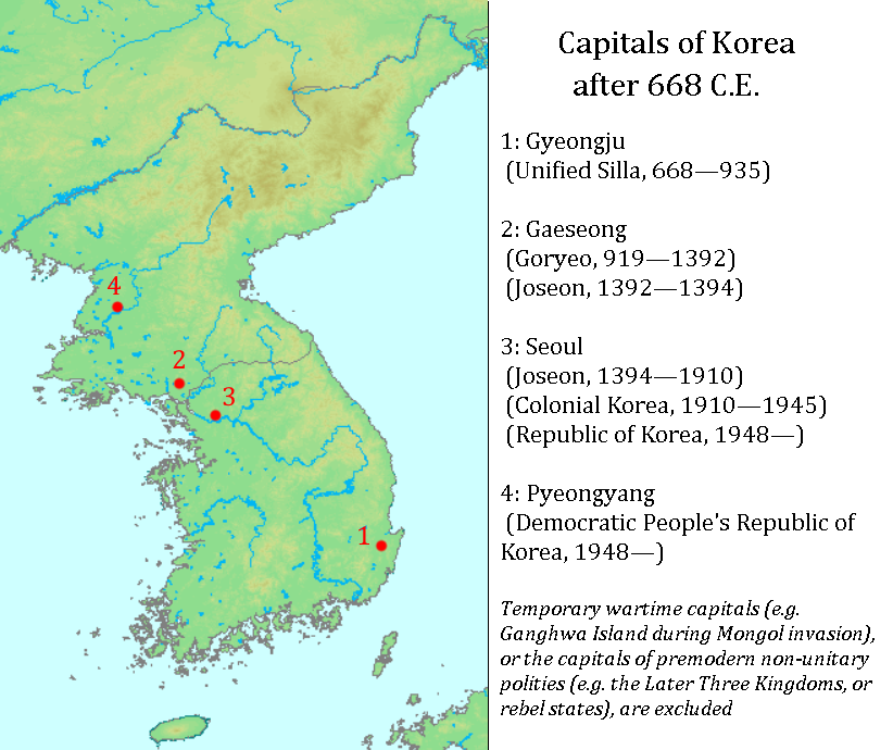 A map of the historical capitals of Korea since the conquest of Goguryeo in 668. With the exception of modern North and South Korea, the capitals of polities which did not rule the entire country are excluded. Base map from DEMIS World Map server. This image is in the public domain because it came from the site and was released by the copyright holder. Permission is granted to copy, distribute and/or modify this map since it is based on free of copyright images from: See also approval email on de.wp and its clarification. This work has been released into the public domain by its author, This applies worldwide.In some countries this may not be legally possible; if so: grants anyone the right to use this work for any purpose, without any conditions, unless such conditions are required by law.